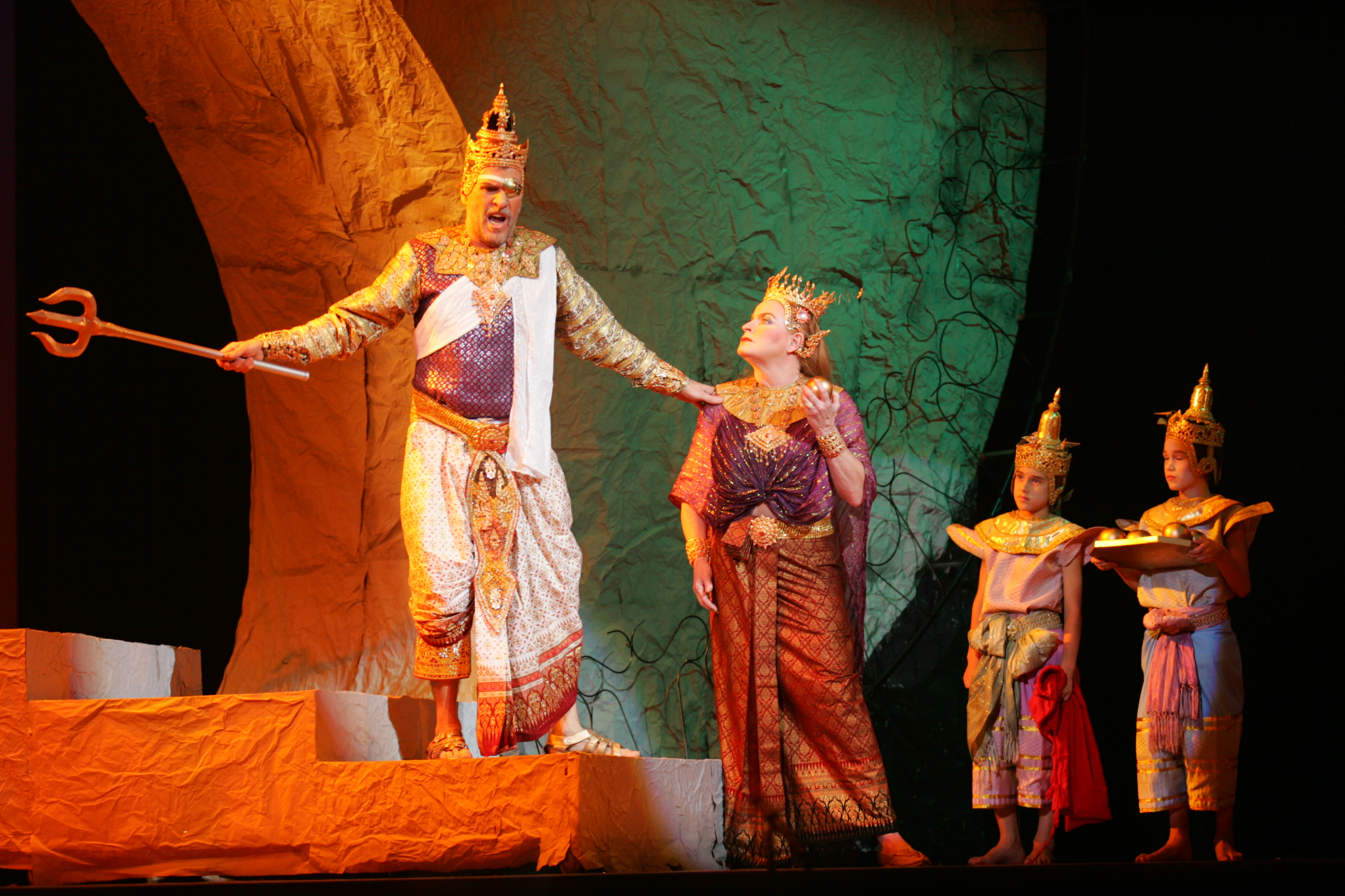 Lars Waage as Wotan and Barbara Smith Jones as Fricka in the Bangkok Opera's 2006 production of Wagner's Das Rheingold. PR photo released by the Bangkok Opera.